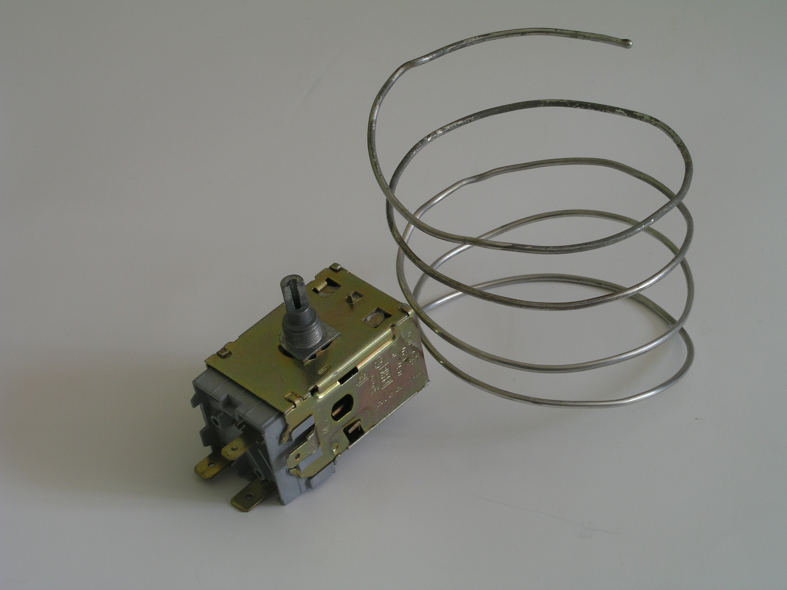 Thermostat from a refrigerator with coiled thermosensor. This one is the Atea A13-0103-26 which is used in Bauknecht, Whirlpool and other refrigerators